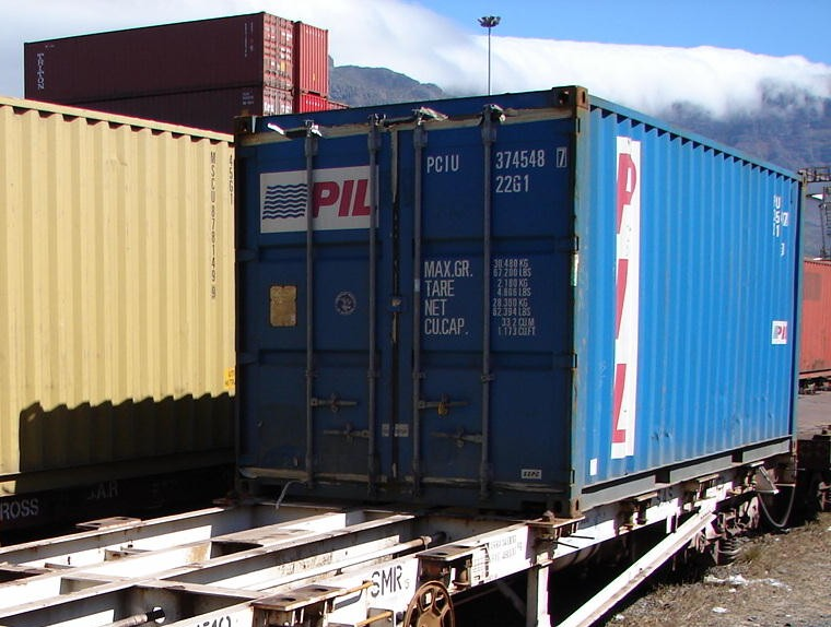 Line: Pacific International Lines (PIL)Container number: PCIU 374548 7ISO size & type code: 22G1ISO description: 20-ft dry containerLocation: Table Bay Harbour, Cape Town, South Africa